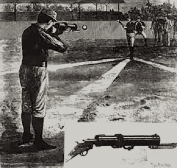 Mecanical baseball pitcher by Charles Howard Hintons (1853 – 1907)